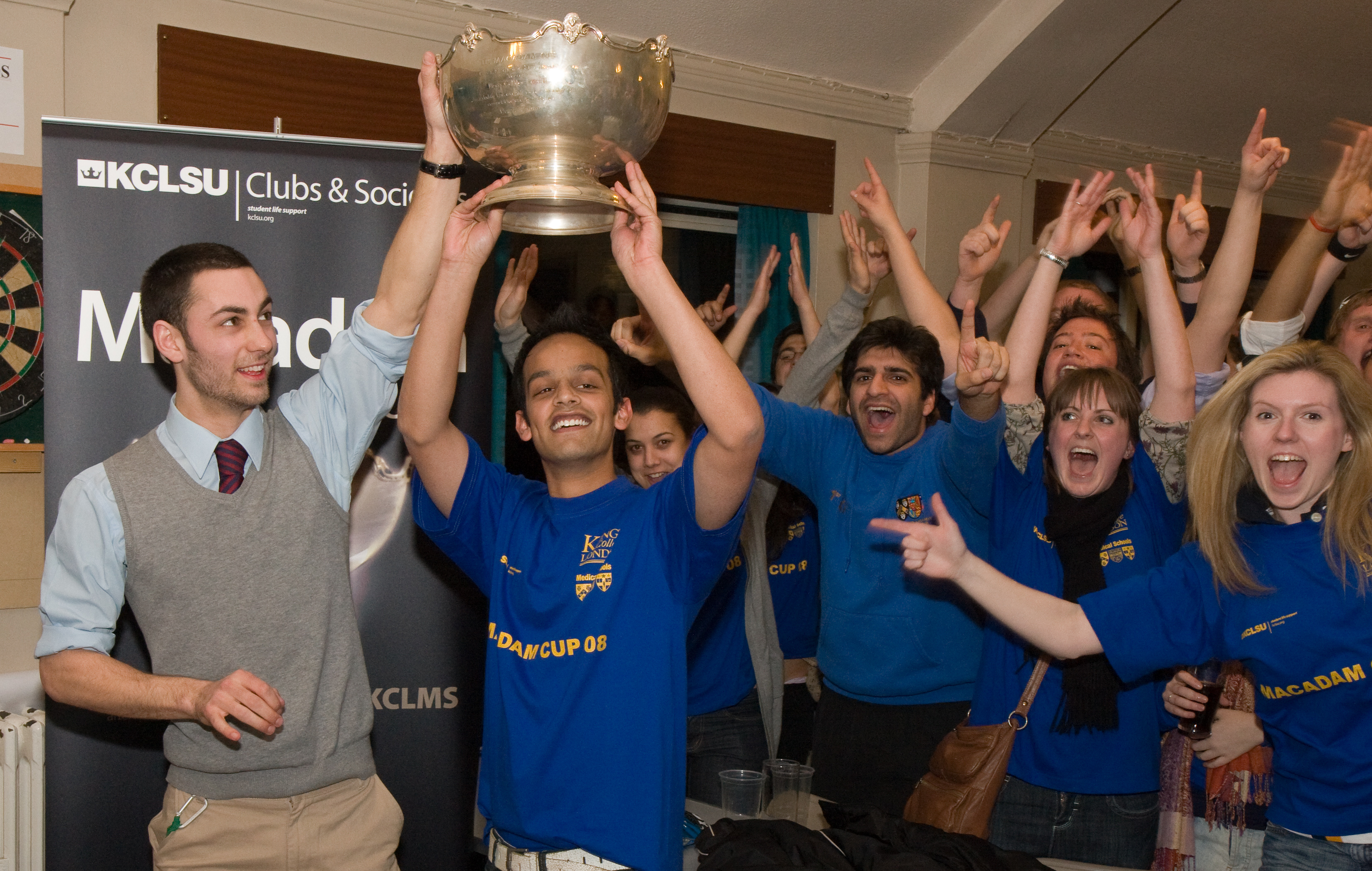 Tom AbouNader, KCLSU Vice-President Participation & Development, and Mihir Shah, captain of KCLMS Men's Hockey first team, lifting the Macadam Cup.